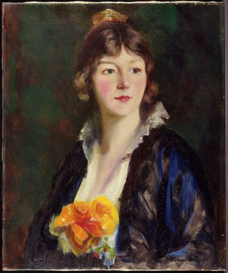 Robert Henri, American, 1865–1929 Mildred Clarke von Kienbusch, 1914 Oil on canvas 61 x 51 cm. (24 x 20 1/16 in.) frame: 81.4 × 71 × 7 cm (32 1/16 × 27 15/16 × 2 3/4 in.) Bequest of Carl Otto von Kienbusch, Class of 1906, for the Carl Otto von Kienbusch Jr. Memorial Collection y1977-26 Early in 1914, Mildred Clarke von Kienbusch and her husband, Carl Otto, attended a New York exhibition of paintings by The Eight, a group consisting of former newspaper illustrators like Robert Henri, its founder, who had come together in frustration over the perceived rarefied atmosphere at the National Academy of Design and its restrictive exhibition policies. Attracted to Henri’s grittily vital aesthetic, the young von Kienbusches looked him up in the telephone book. The eventual result was this portrait — characteristic of Henri’s work at the time in its subdued palette enlivened by splashes of bright color — which Carl, who subsequently became one of the Museum’s major benefactors, donated in memory of his wife.